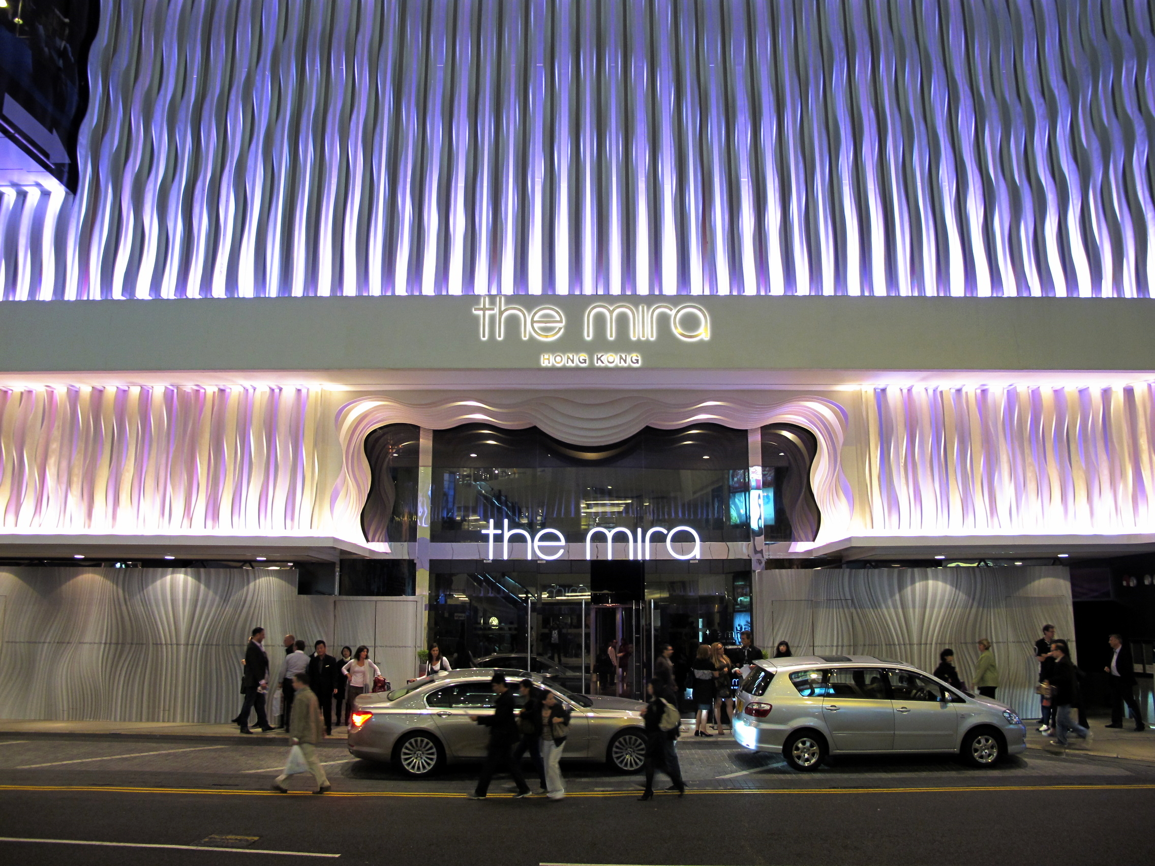 The Mira Hong Kong Enterance